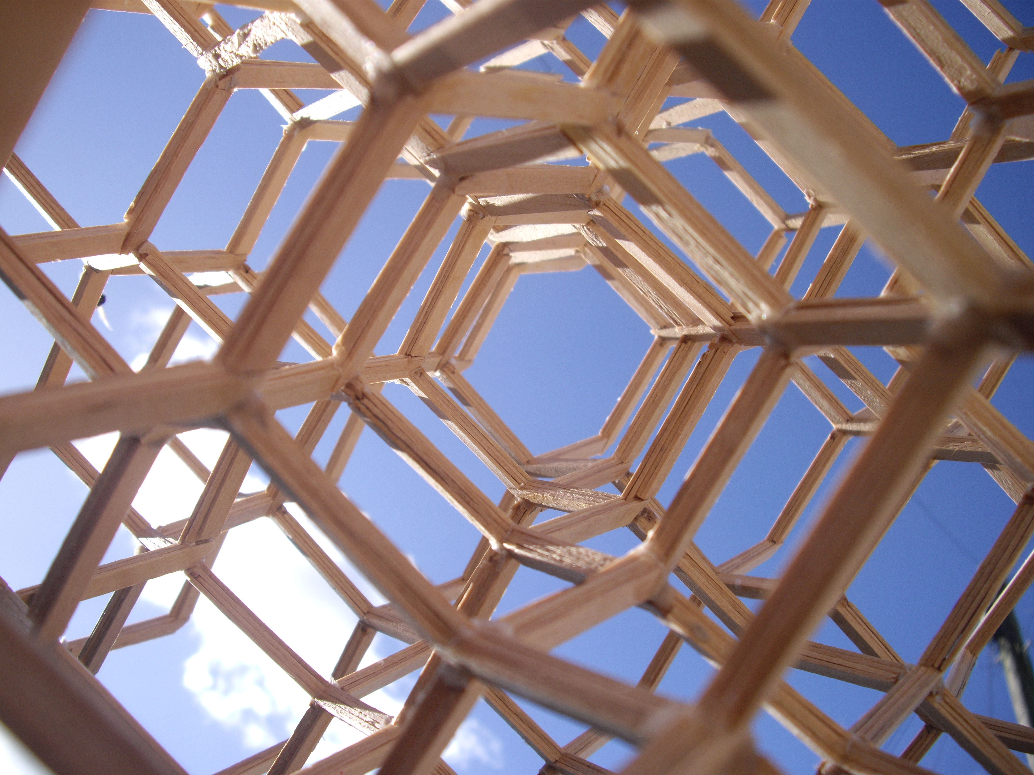 Lorimerlite structure, the strongest isotropic truss for resisting compression. Lormerlite